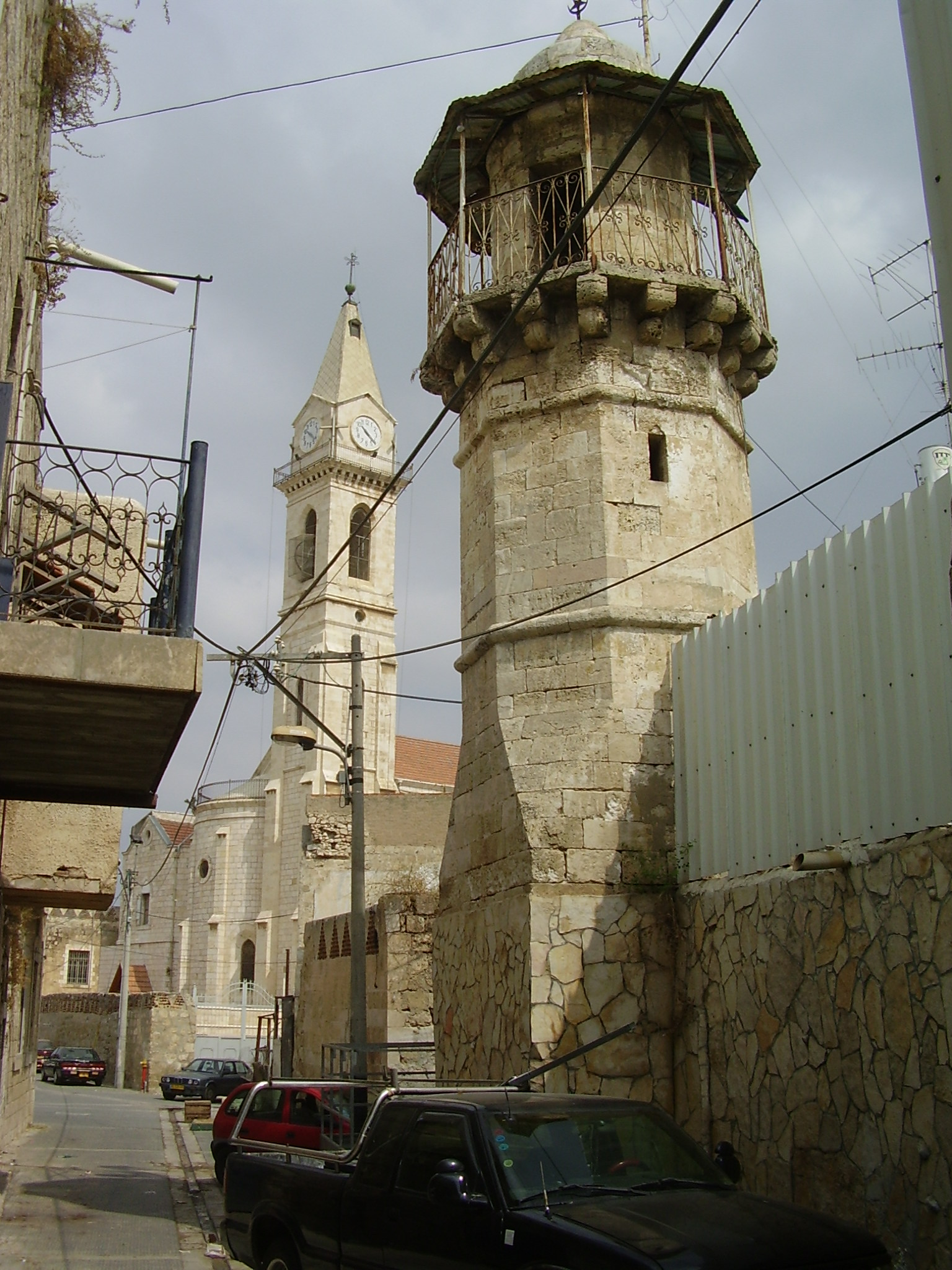 franciscan monastery in ramla